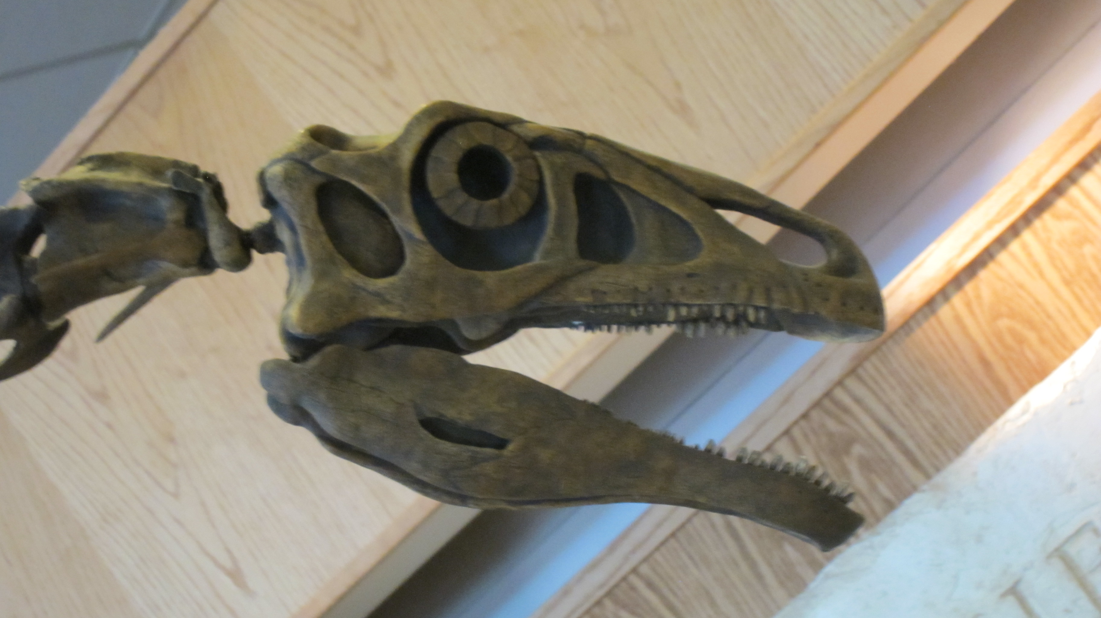 Nothronychus graffami (head), Glen Canyon Dam Visitors' Center